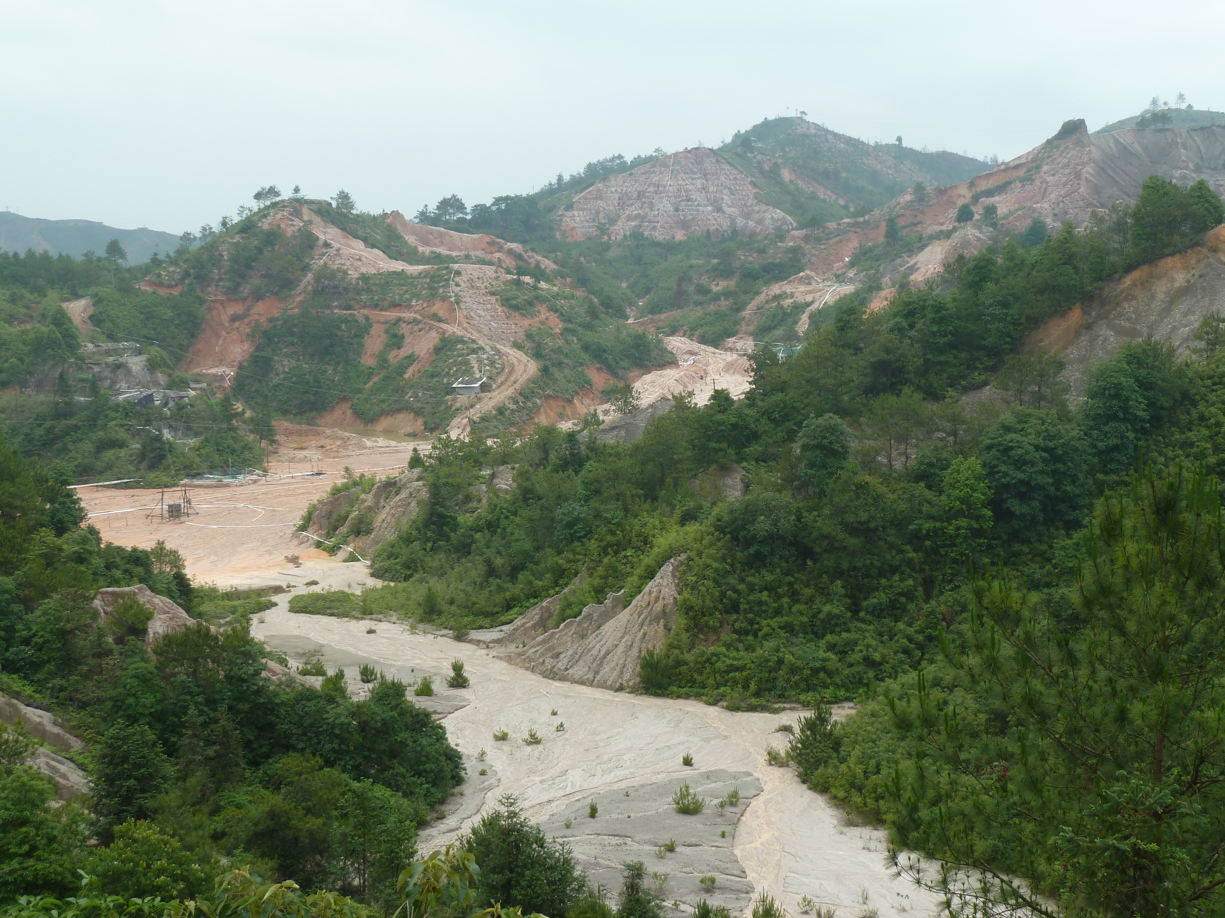 landscape in SCN